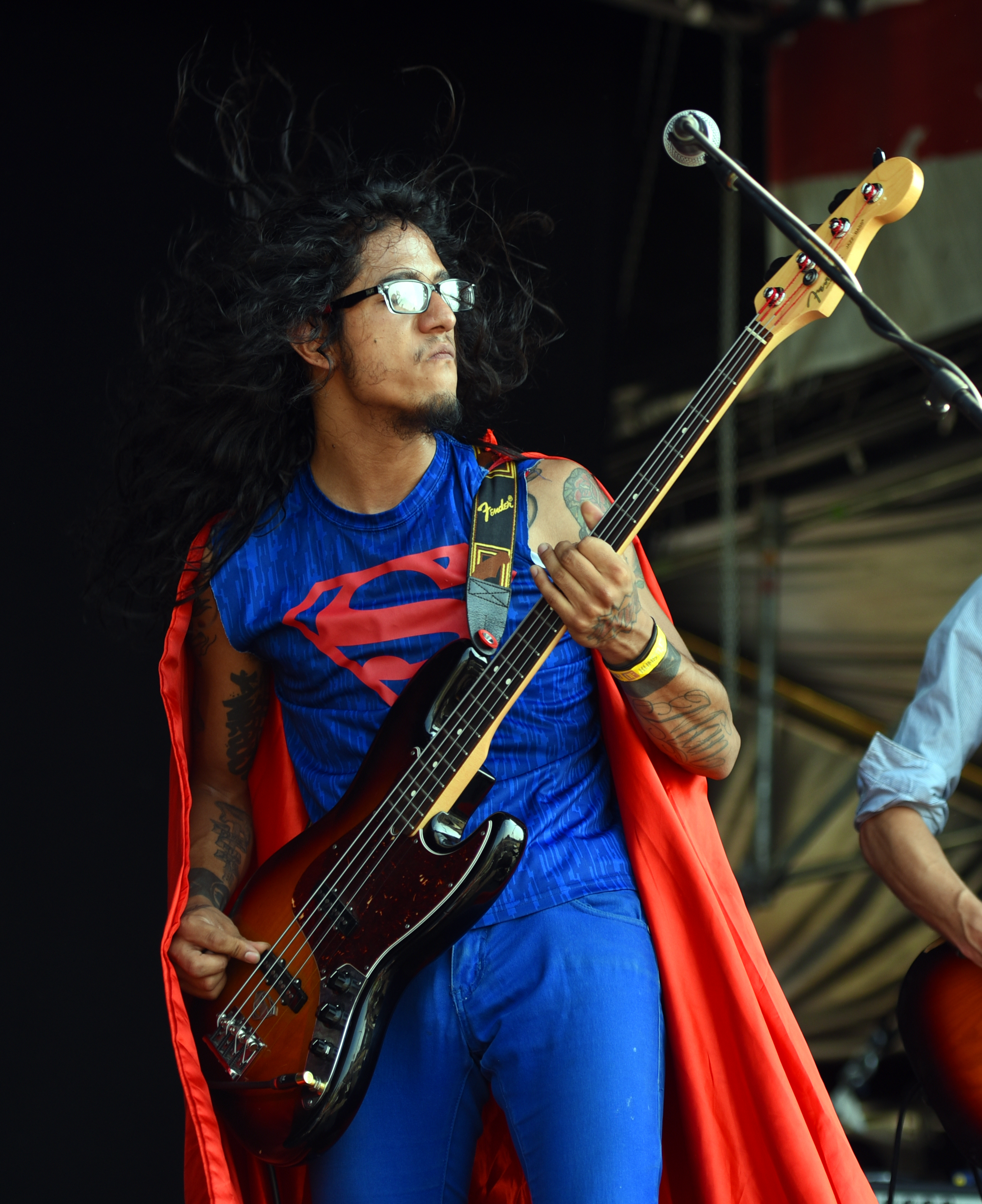 Andy Frasco & the U.N. at the Open Flair festival in Eschwege, Germany